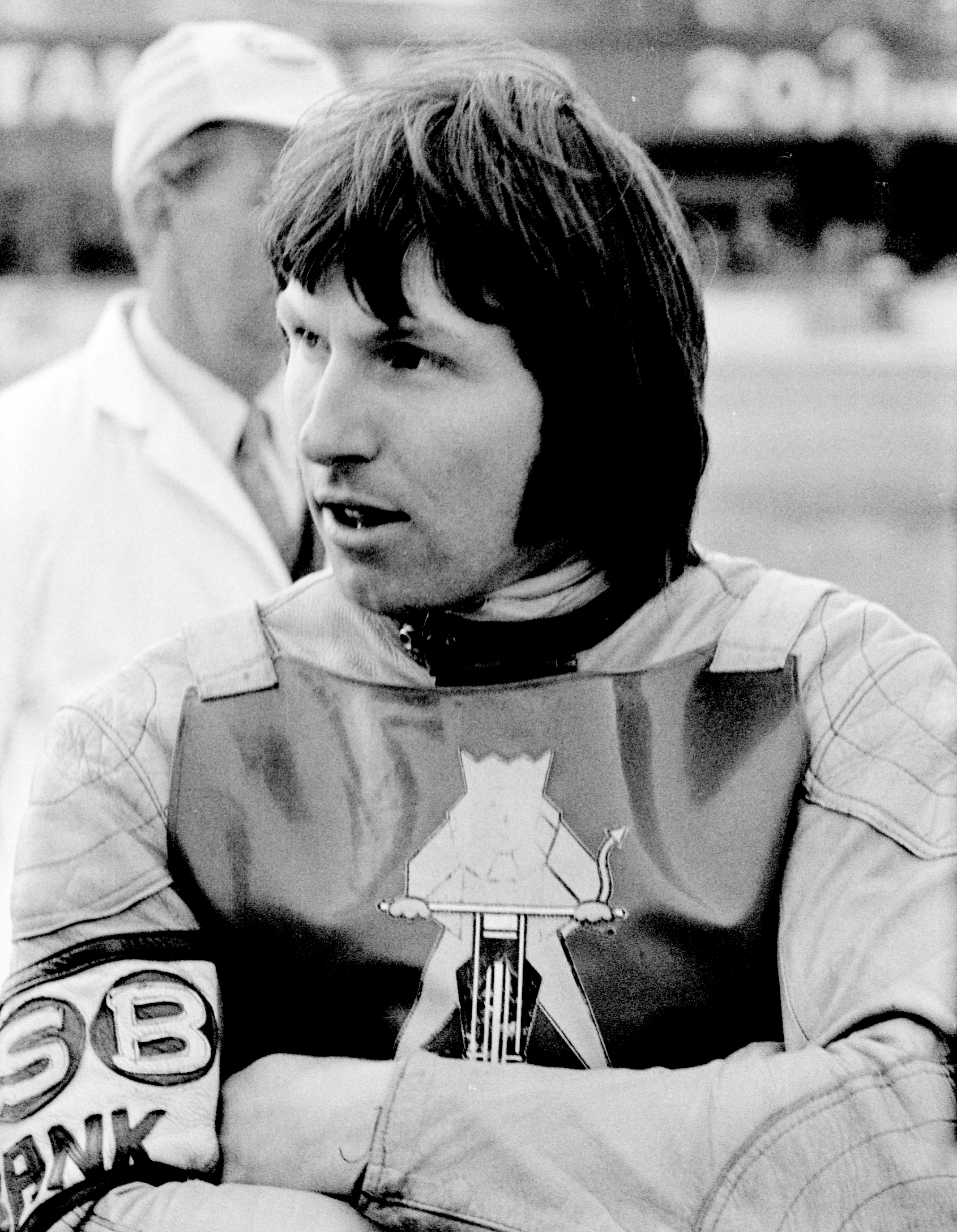 British Speedway Champion and World Team Cup Winner. Rode for Leicester